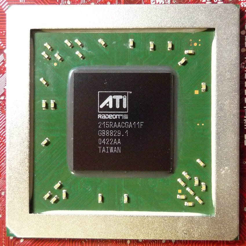 ATI "RADEON X800PRO AGP(R420)" GPU